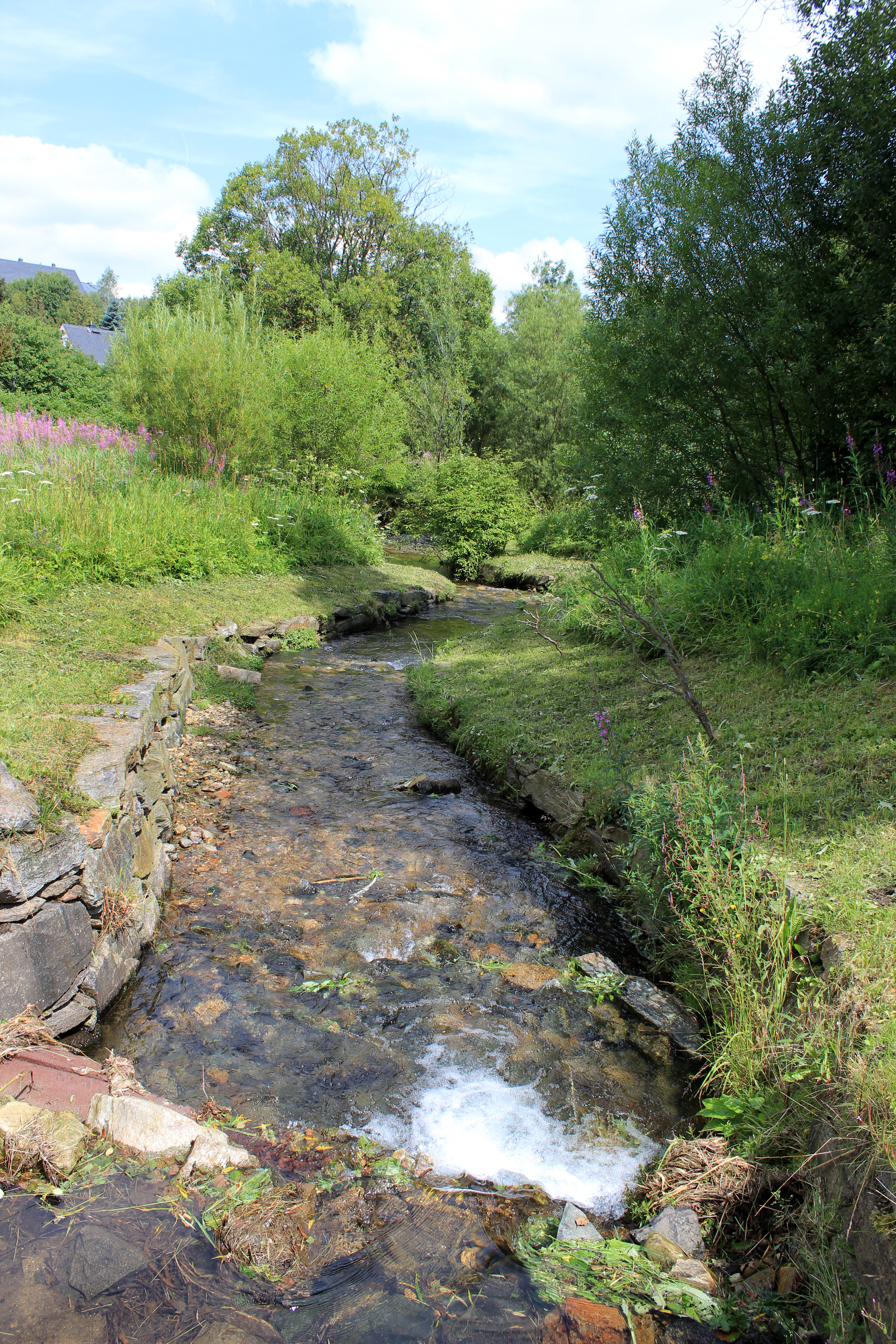 Polava creek in Loučná pod Klínovcem, Czech Republic.